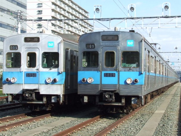 Teito Rapid Transit Authority (Tokyo Metro) 5000 series EMUs in aluminum body (left) and stainless steel (right)